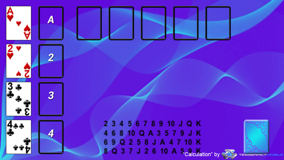 This image is a screenshot of the solitaire game "Calculation". More information about this game or this photo can be found on this website